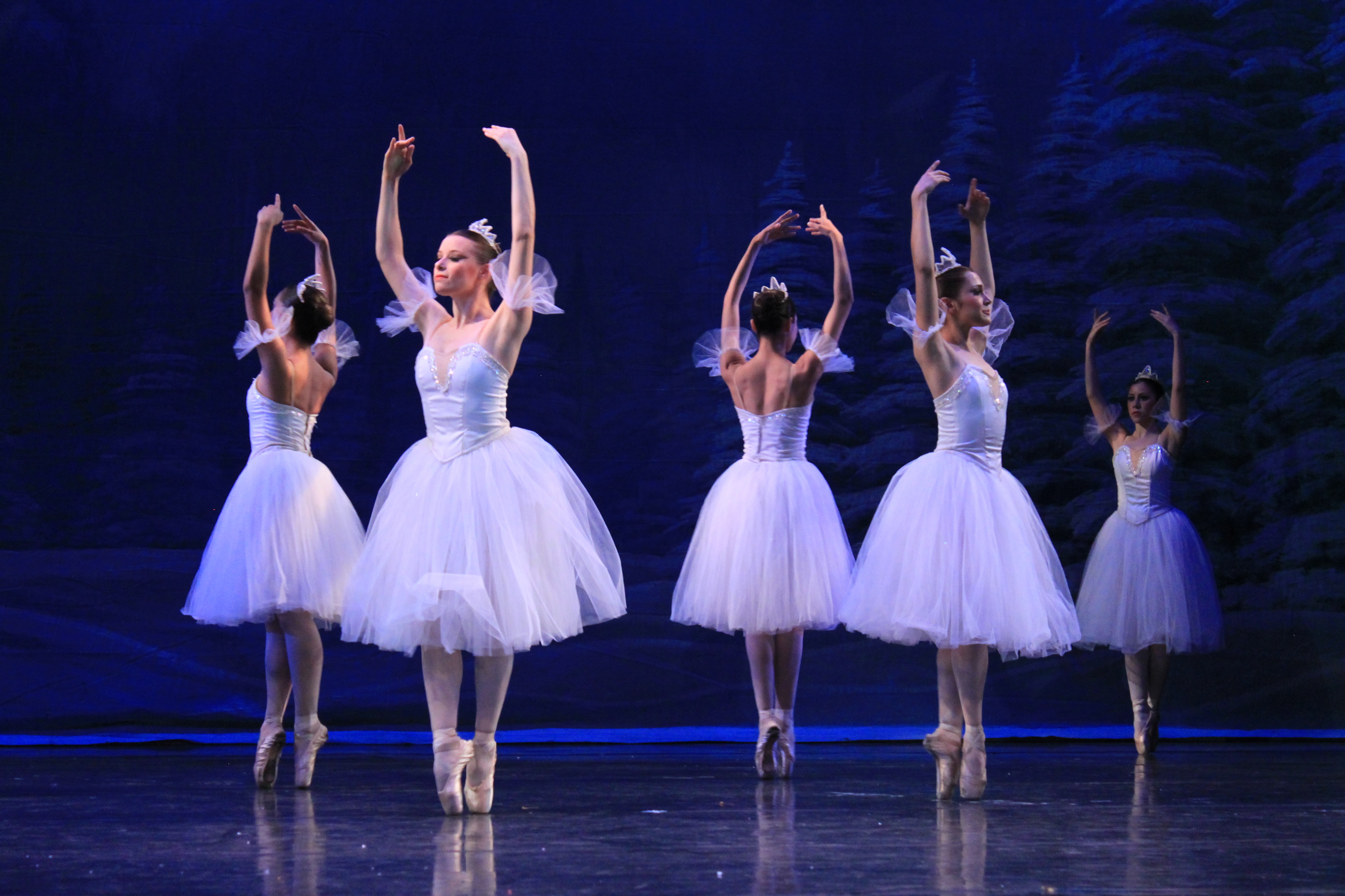 Danse of the snowflakes, final scène of the first act in The Nutcracker ballet as performed by the Escuela Superior de Música y Danza in 2010.